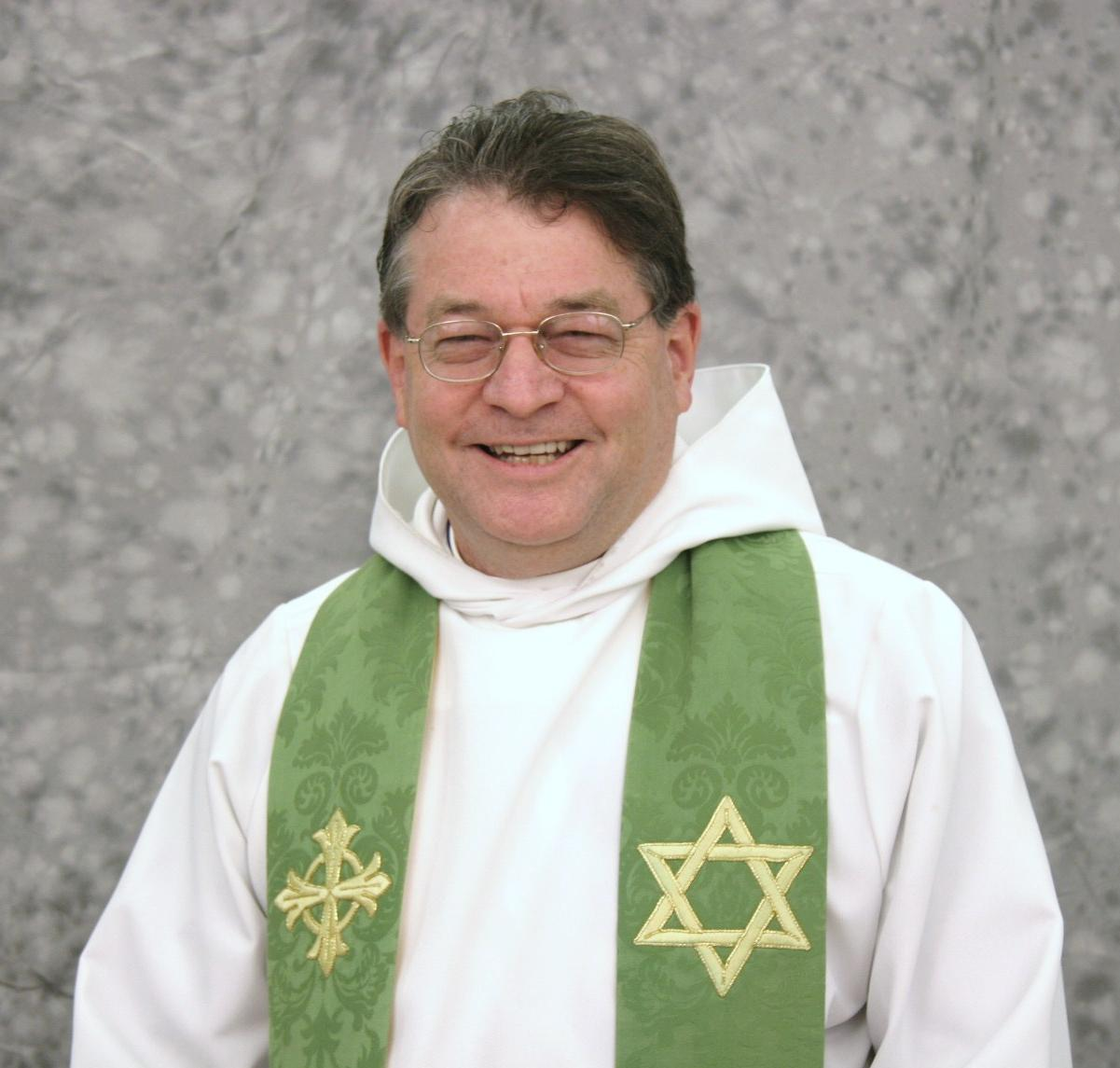 Portrait of Ken Howard, Episcopal Priest, wearing a stoll bearing icons for the Christian cross and the Jewish star of david